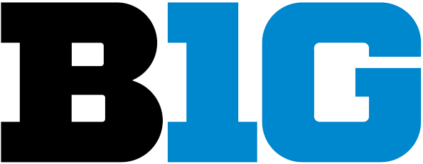 Big Ten Conference logo since 2010.